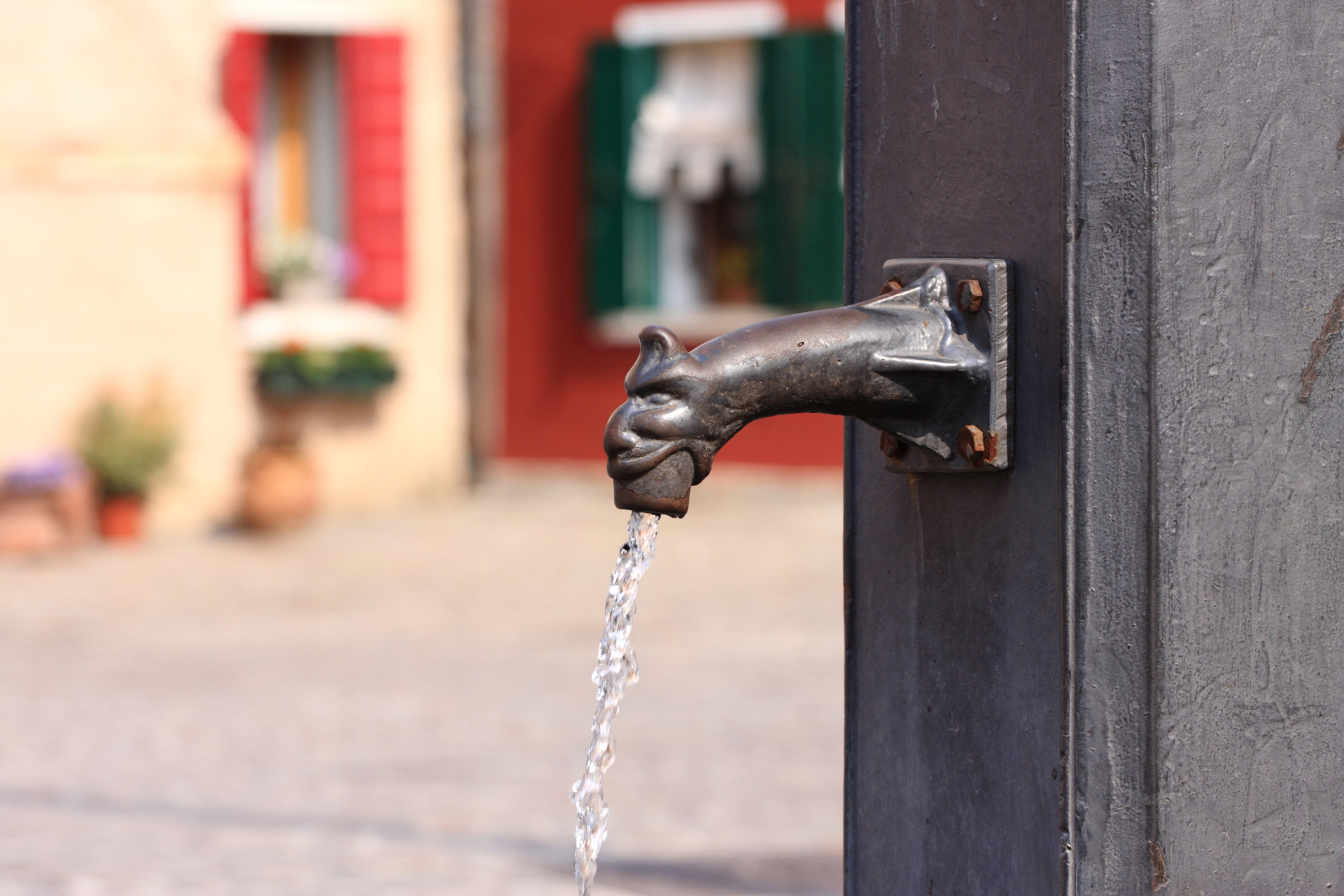 This is a photo of a monument which is part of cultural heritage of Italy.